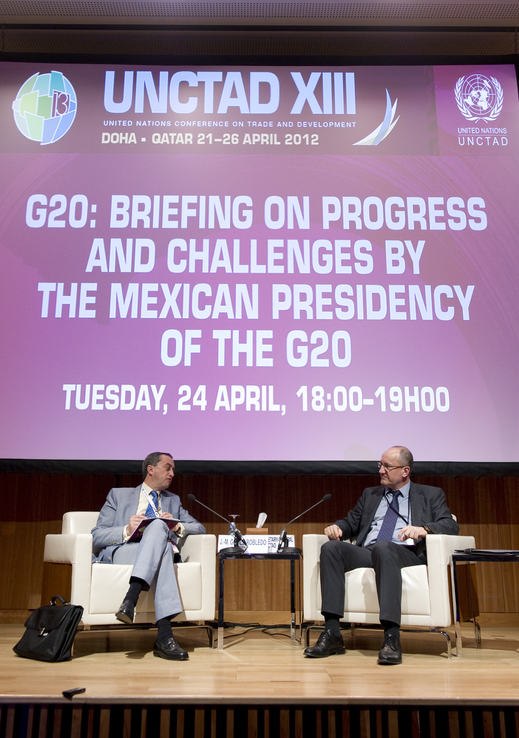 Mr. Juan Manuel Gomez Robledo, Vice Minister for Multilateral Affairs and Human Rights, and Representative of Mexico's G20 Sherpa, Ministry of Foreign Affairs, Mexico and Mr. Petko Draganov, Deputy Secretary-General of UNCTAD discussinf at the High-Level Meeting: Briefing on progress and challenges by the Mexican Presidency of the G20